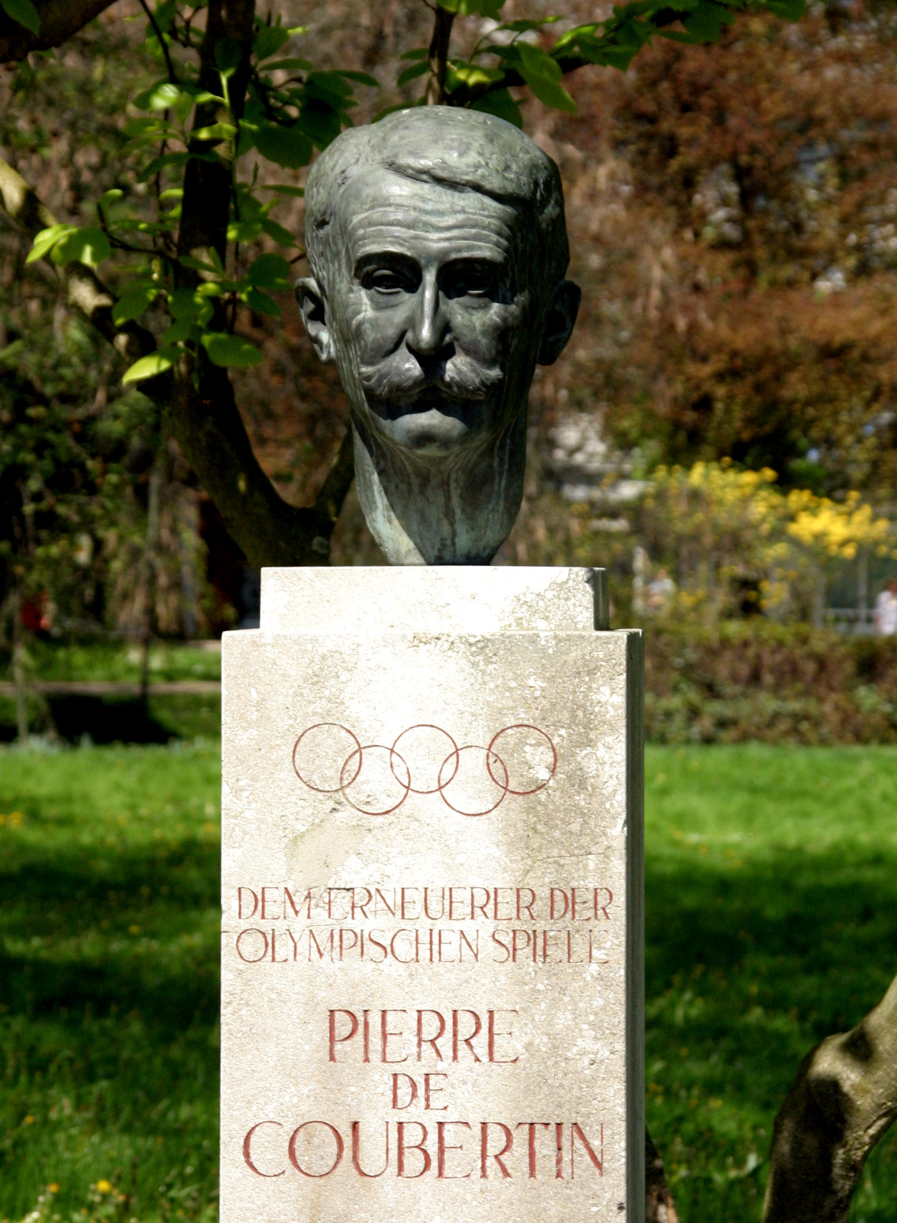 Bust of Pierre de Coubertin (1863-1937), founder of the modern Olympics, at the Augustaplatz in Baden-Baden, built in 1938.